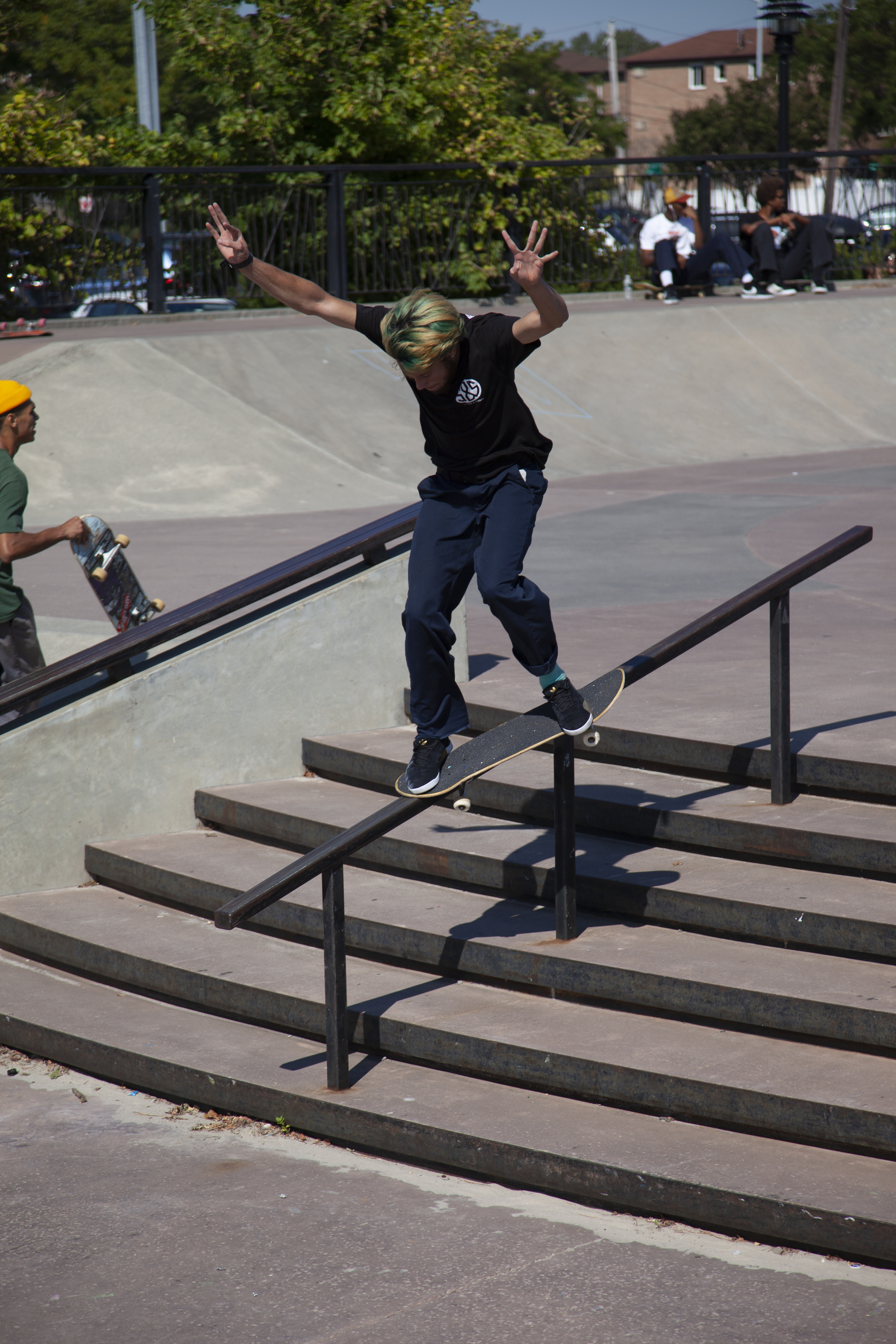 Kenny Gonzales - crooked grind - Far Rockaway Skatepark - 2019 - Battle of the Beach 2 contest